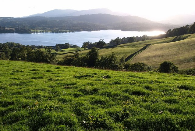 View across the valley of the Hol Beck towards Windermere